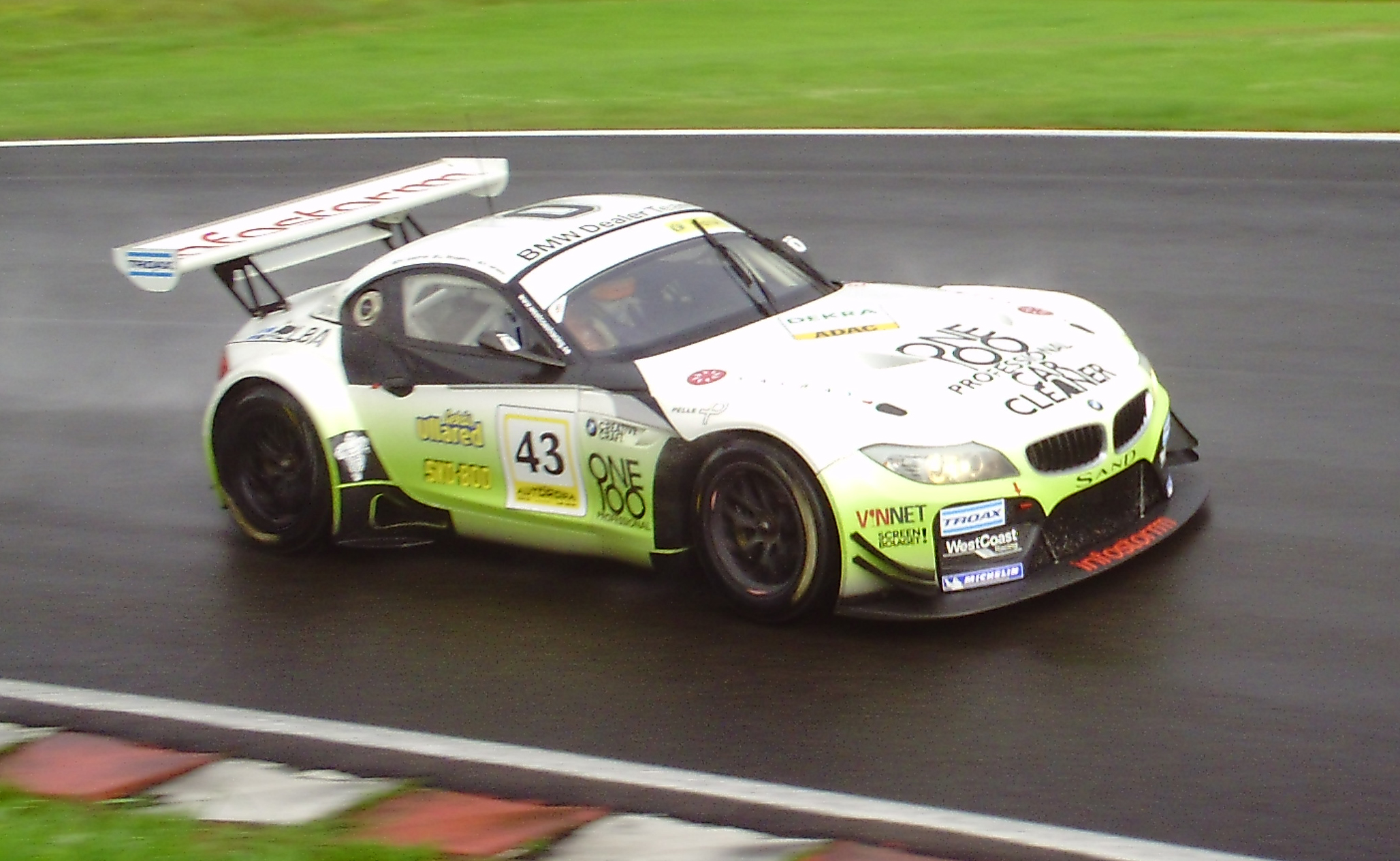 A BMW Z4 GT3 driven by Fredrik Larsson (image) and Fredrik Lestrup for WestCoast Racing in Swedish GT Series at Falkenbergs Motorbana, 2011